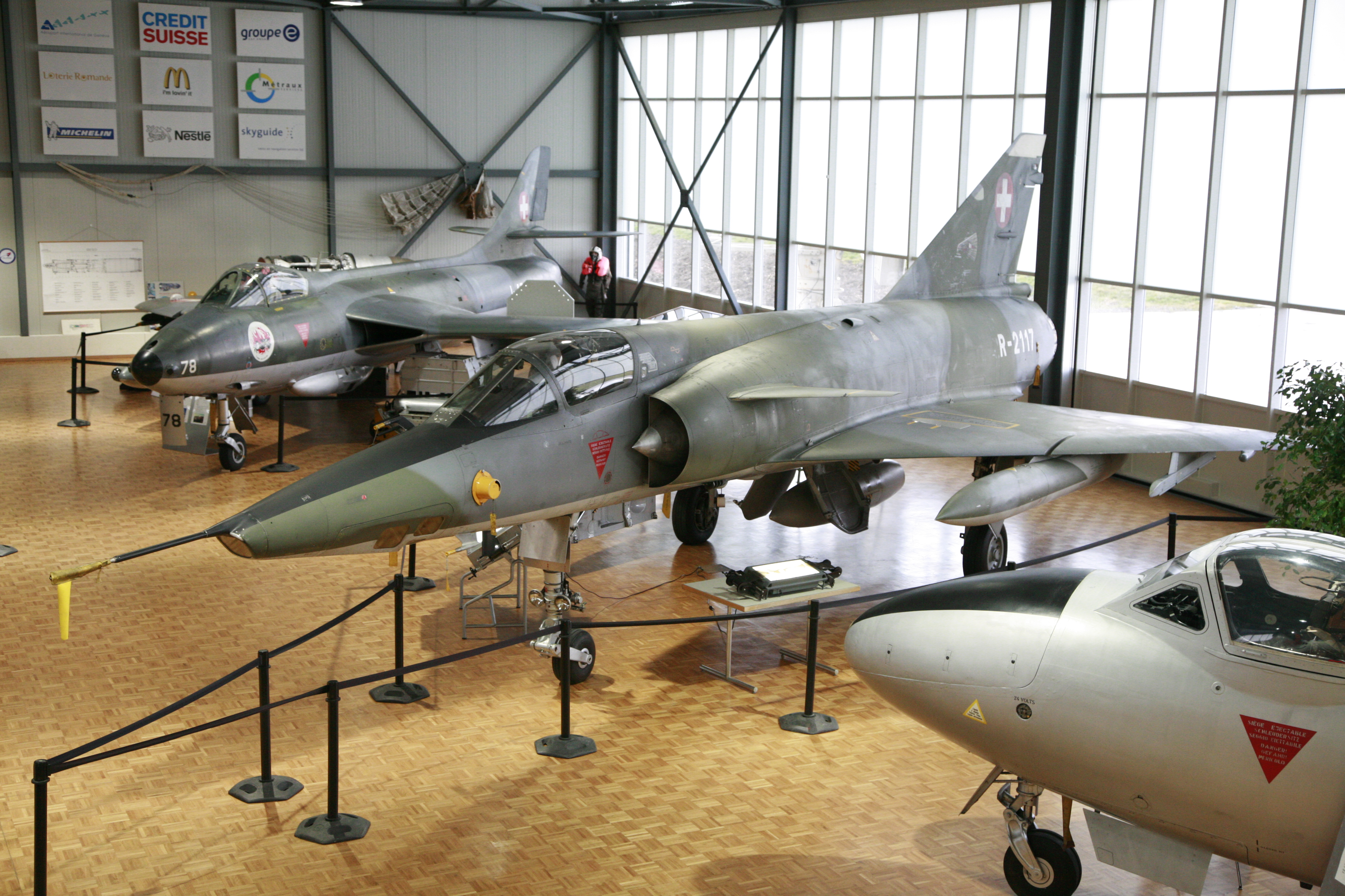 Dassault Mirage III of the Swiss Air Force, on display at Payerne Airbase.